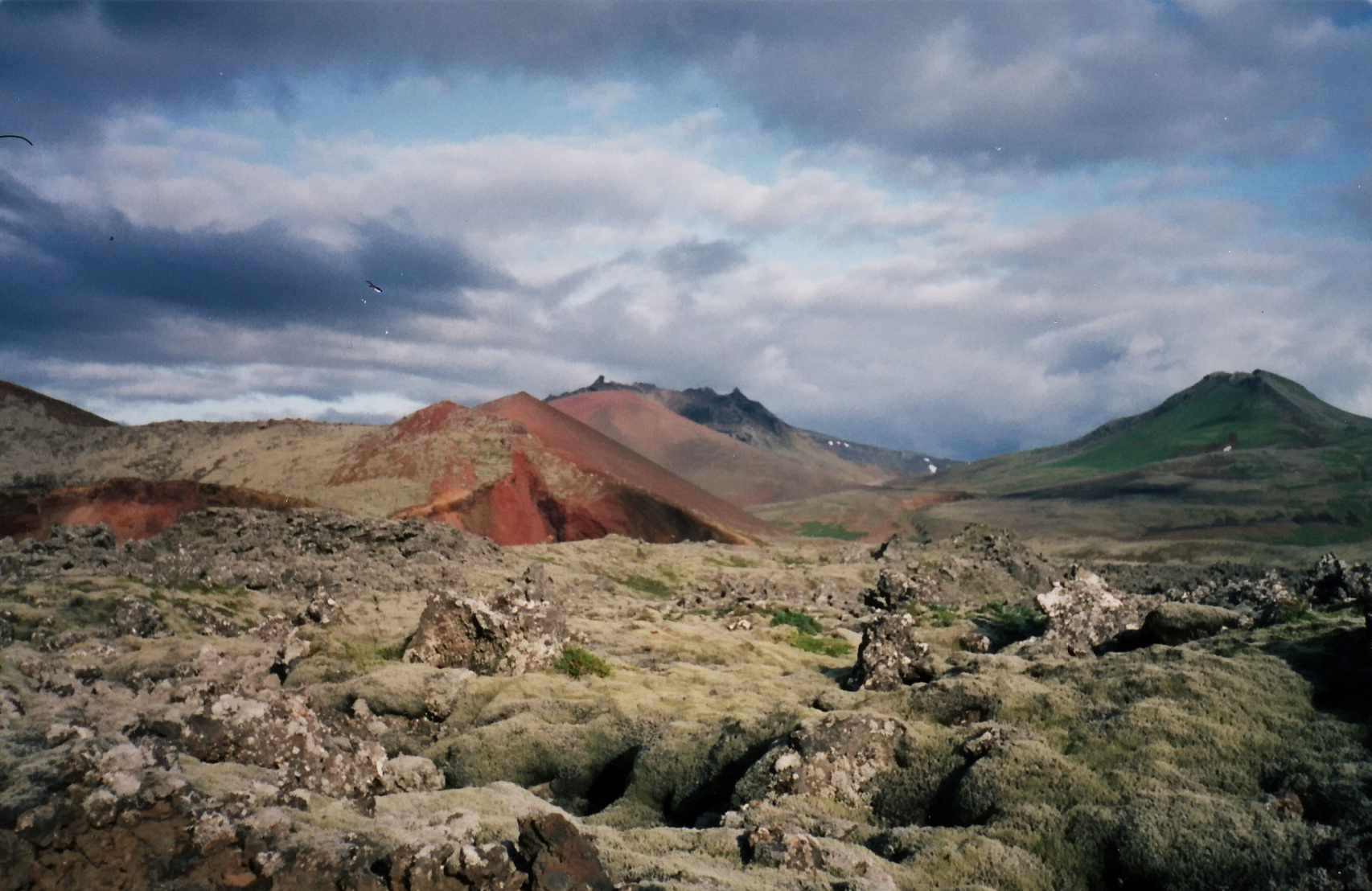 Landscape, west Iceland, Berserkjahraun